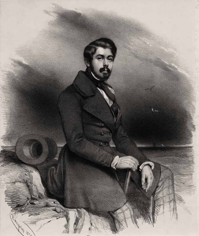 Portrait of French painter Alexandre-Thomas Francia (1815–1884) Description French painter Date of birth/death18151884Location of birth/deathLondonBrusselsAuthority control VIAF: 293742050 SUDOC: 181519062